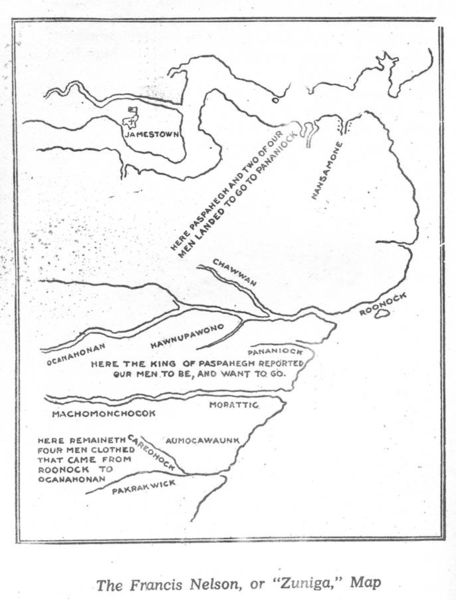 The Francis Nelson, or "Zuniga", Map.